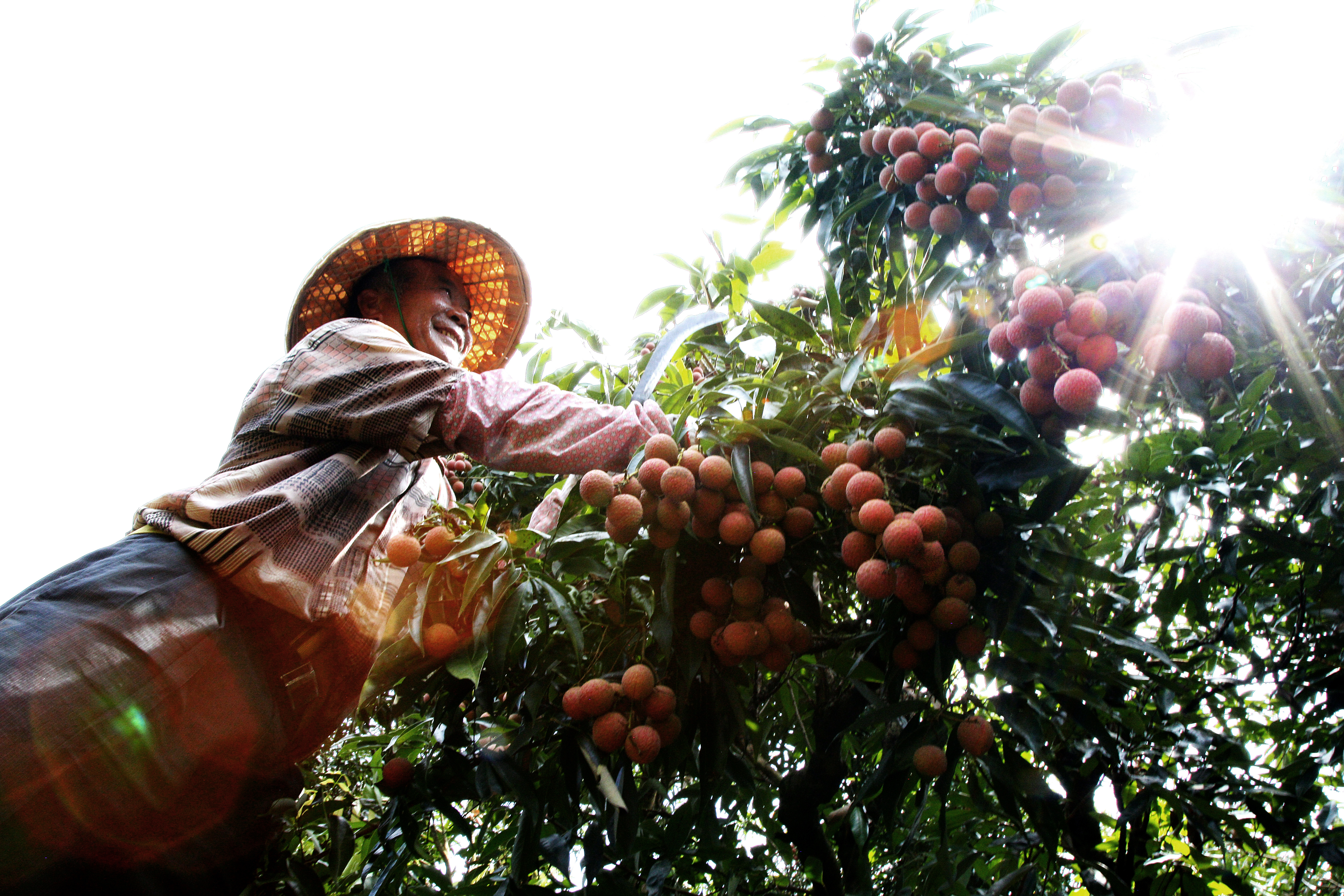 Lychee harvesting